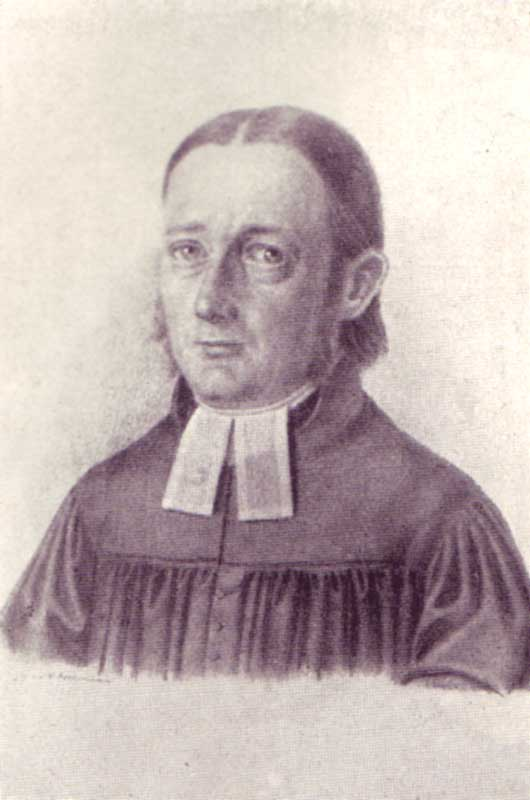 Rudolf Ewald Stier (1800-1862) German Protestant churchman and mystic.